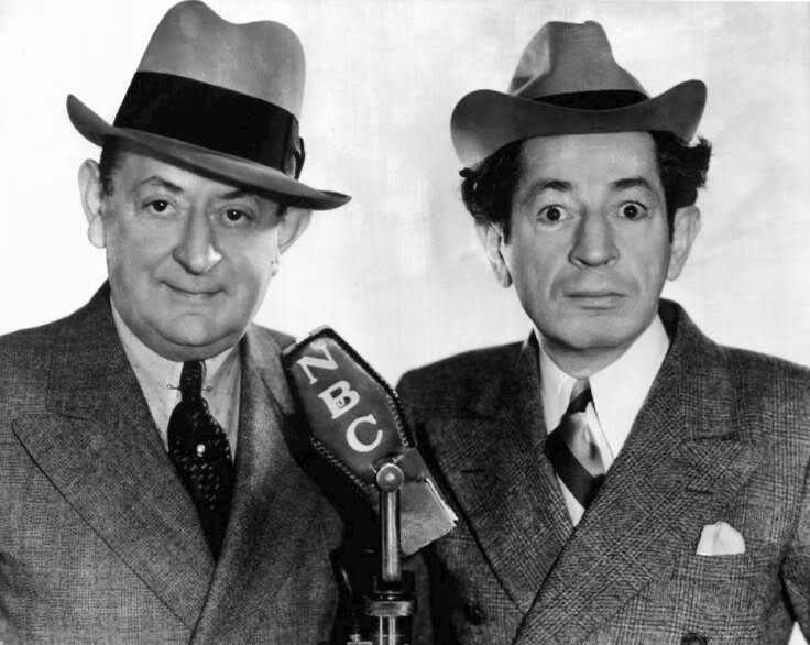 Photo of comedians Eugene (left) and Willie Howard. The brothers worked in vaudeville, radio and on Broadway.